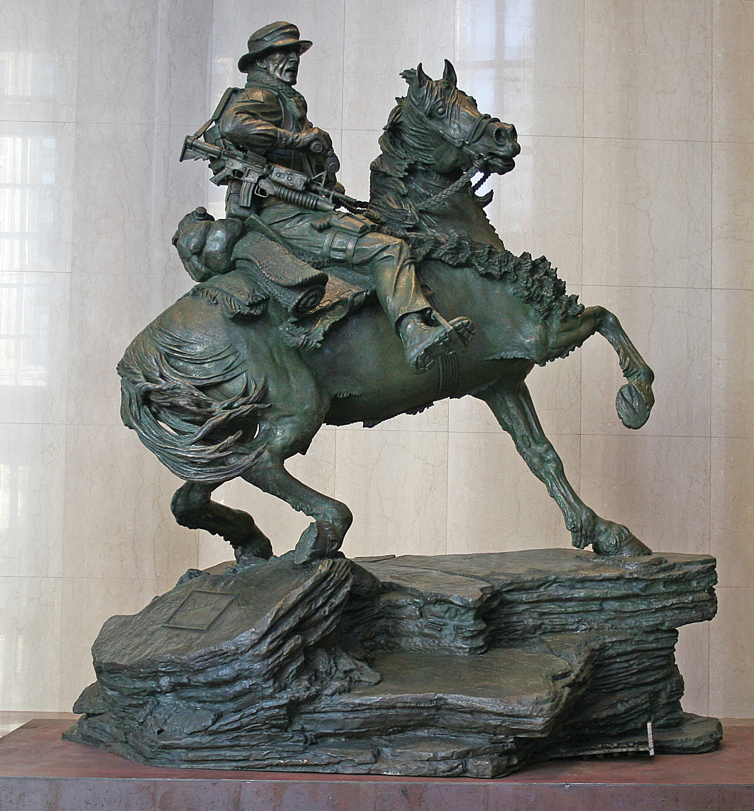 The sculpture The Horse Soldier is dedicated to the United States Special Forces and commemorates the servicemen who fought in the early days of Operation Enduring Freedom. The monument is titled "De Oppresso Liber", which is the motto of the Green Berets. It means ‘Freedom from Oppression’. The base is subtitled “America’s Response Monument.” It was created by sculptor Douwe Blumberg.